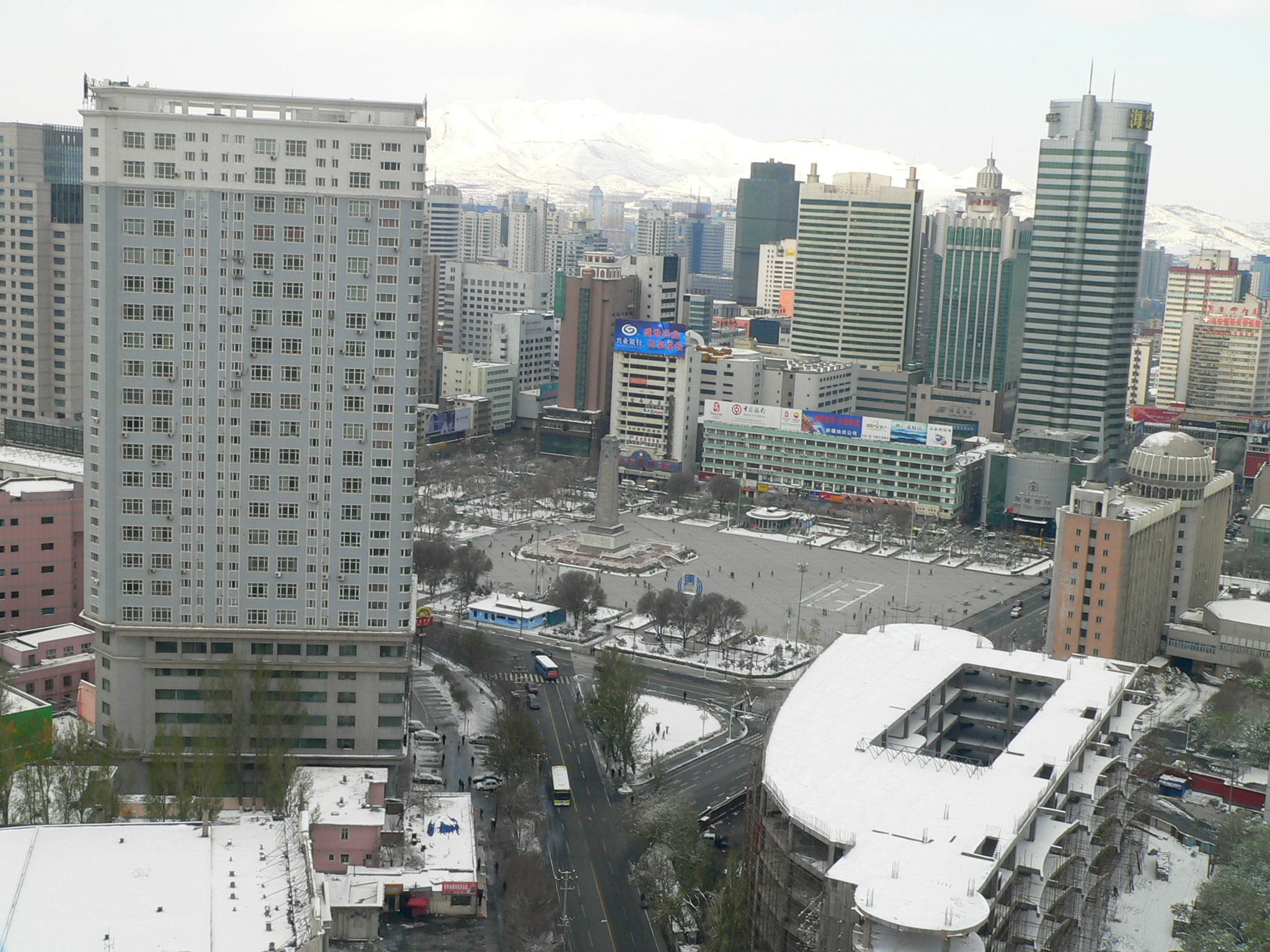 The People's Square of Urumqi, Xinjiang Uyghur Autonomous Region, People's Republic of China